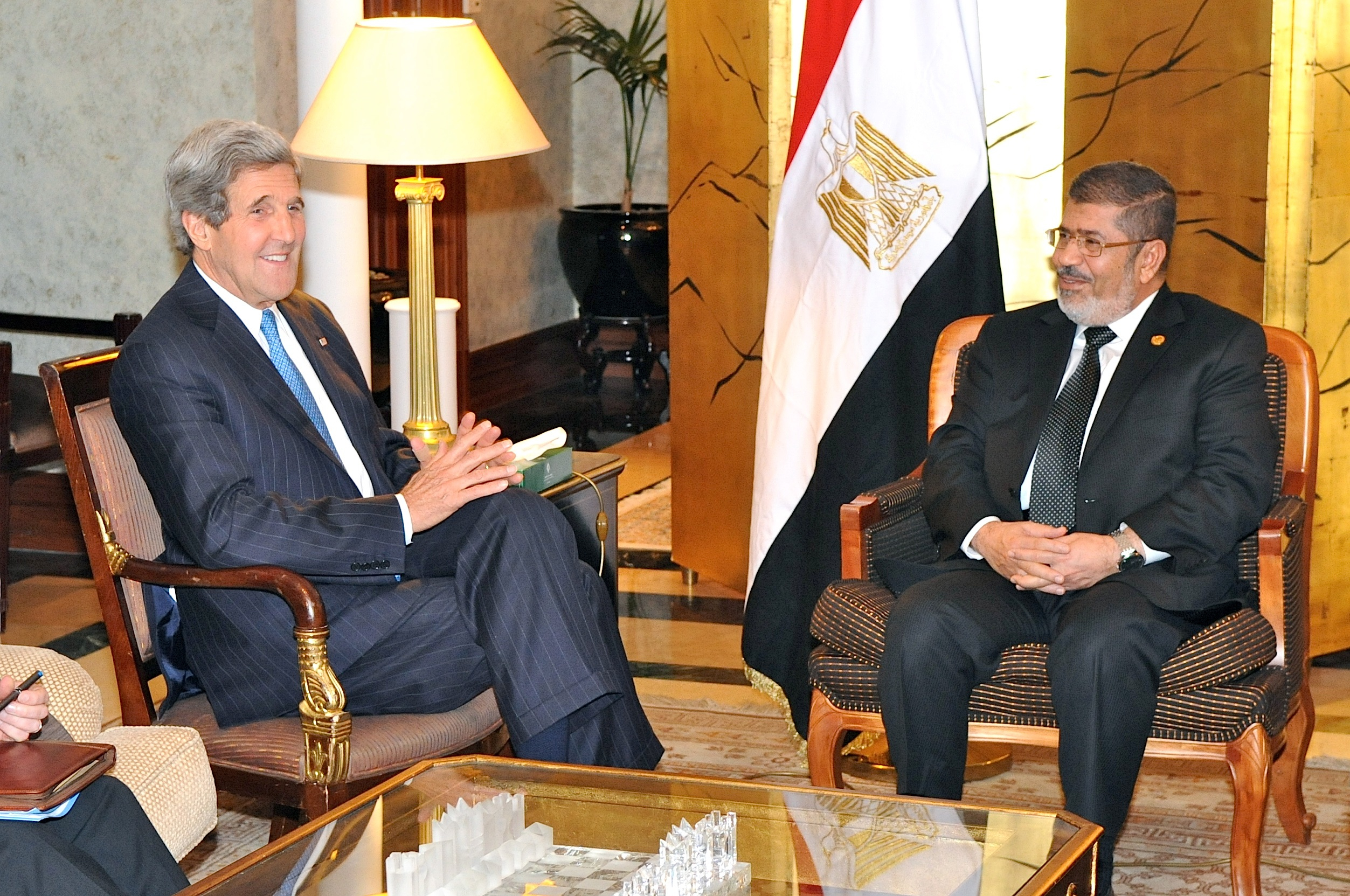 U.S. Secretary of State John Kerry meets with Egyptian President Mohamed Morsi, as the two attend the 50th anniversary African Union Summit in Addis Ababa, Ethiopia, on May 25, 2013. [State Department photo/ Public Domain]